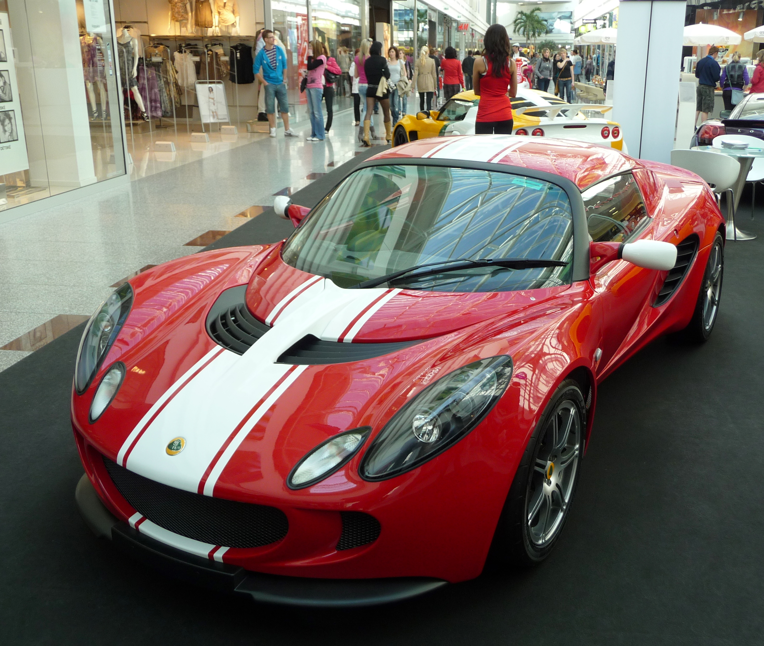 Lotus Elise IIIR limited edition "Super Racer", Lotus Sport exhibition, Olympia Brno -10 -5 -3 -2 ◄ ► +2 +3 +5 +10